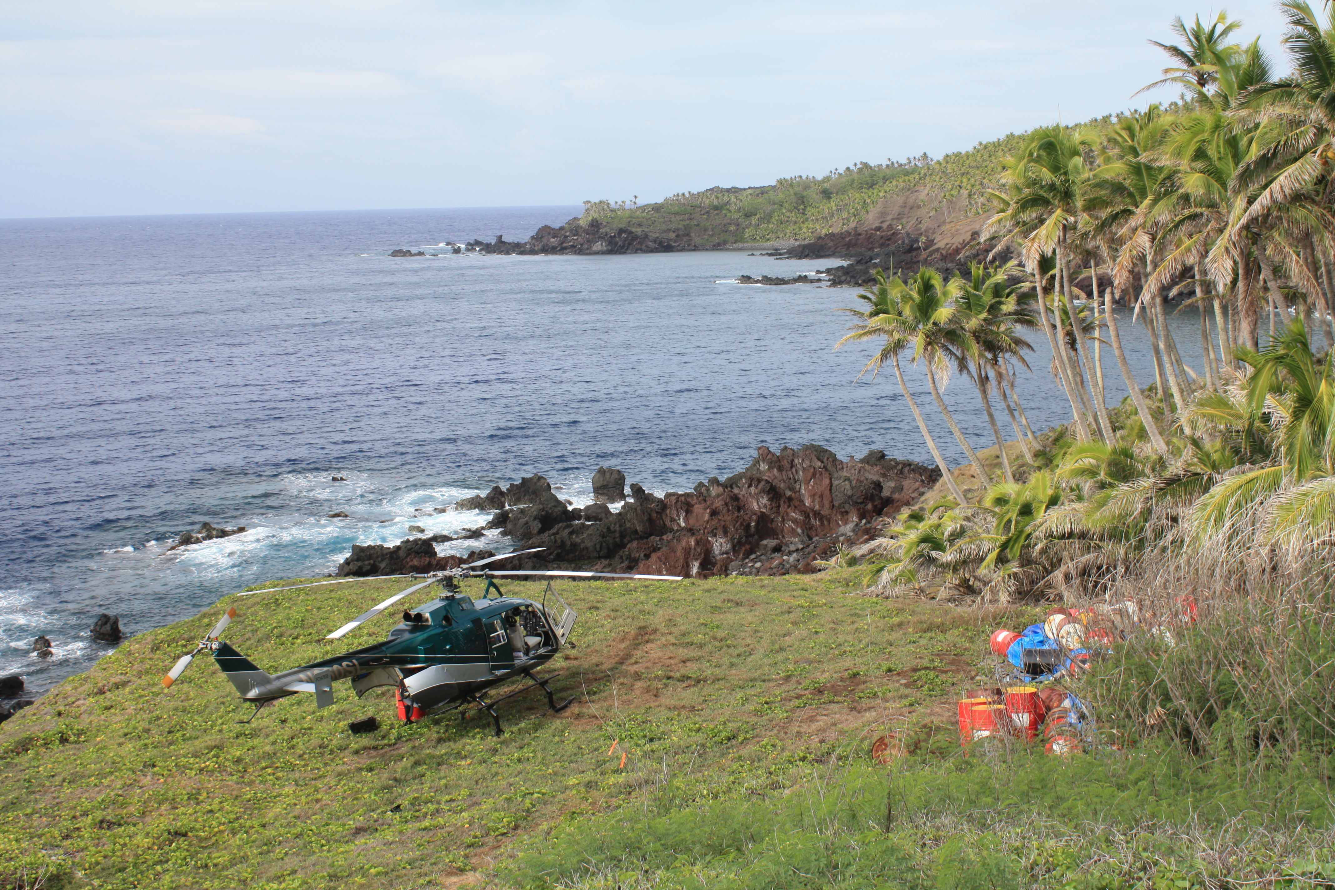 Photos taken on the island of Sarigan, Commonwealth of the Northern Mariana Islands, in June 2010. Helicopter landing site on Sarigan.